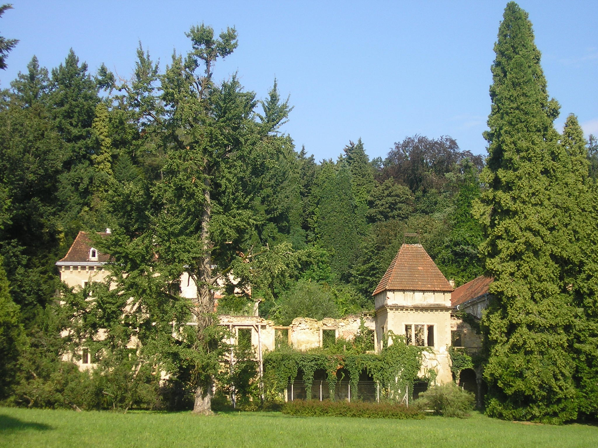 Opeka Manor, Vinica municipality, Varaždin county, Croatia